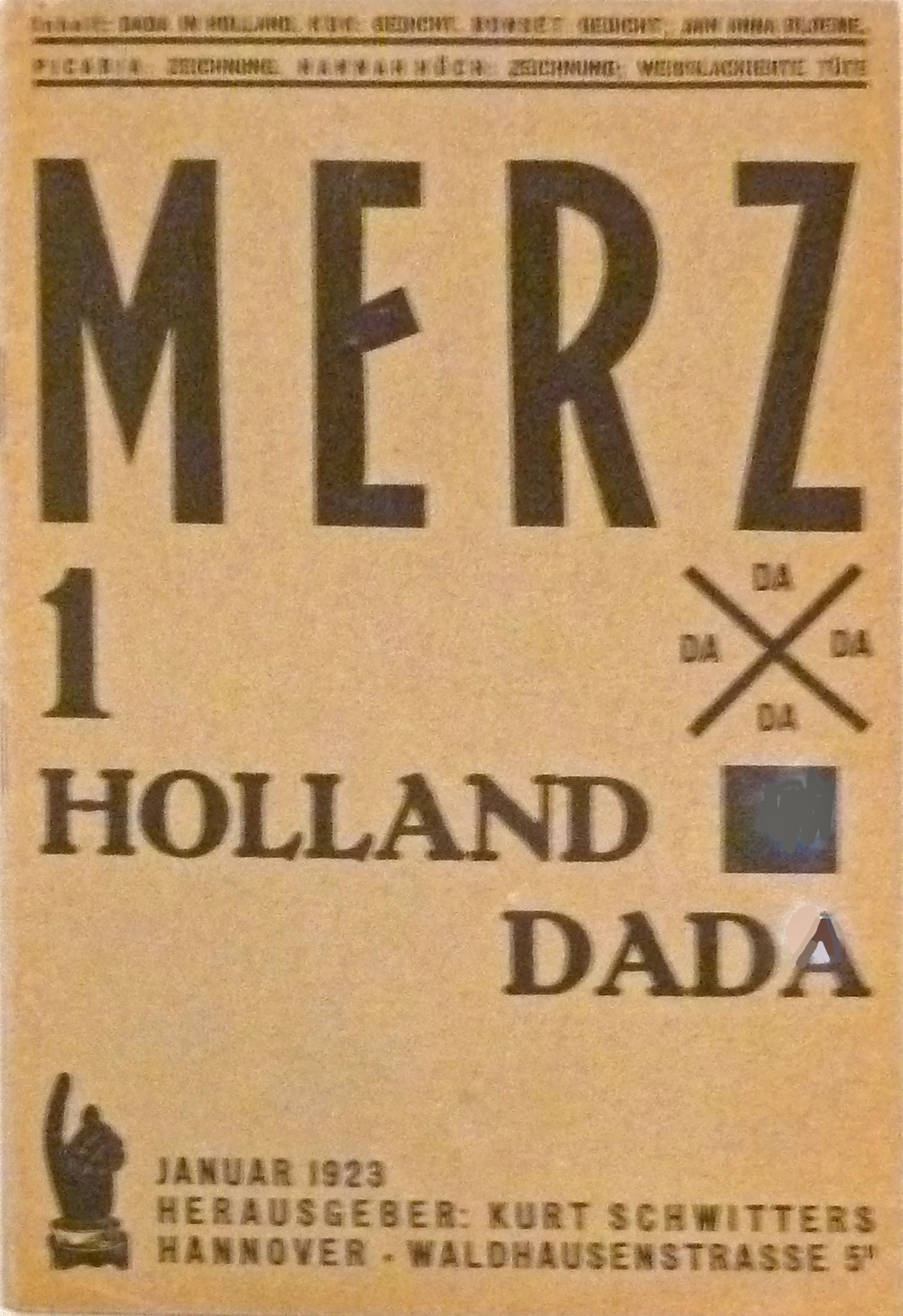 First number of the journal Merz, january 1923; letterpress; Rijksmuseum, Amsterdam